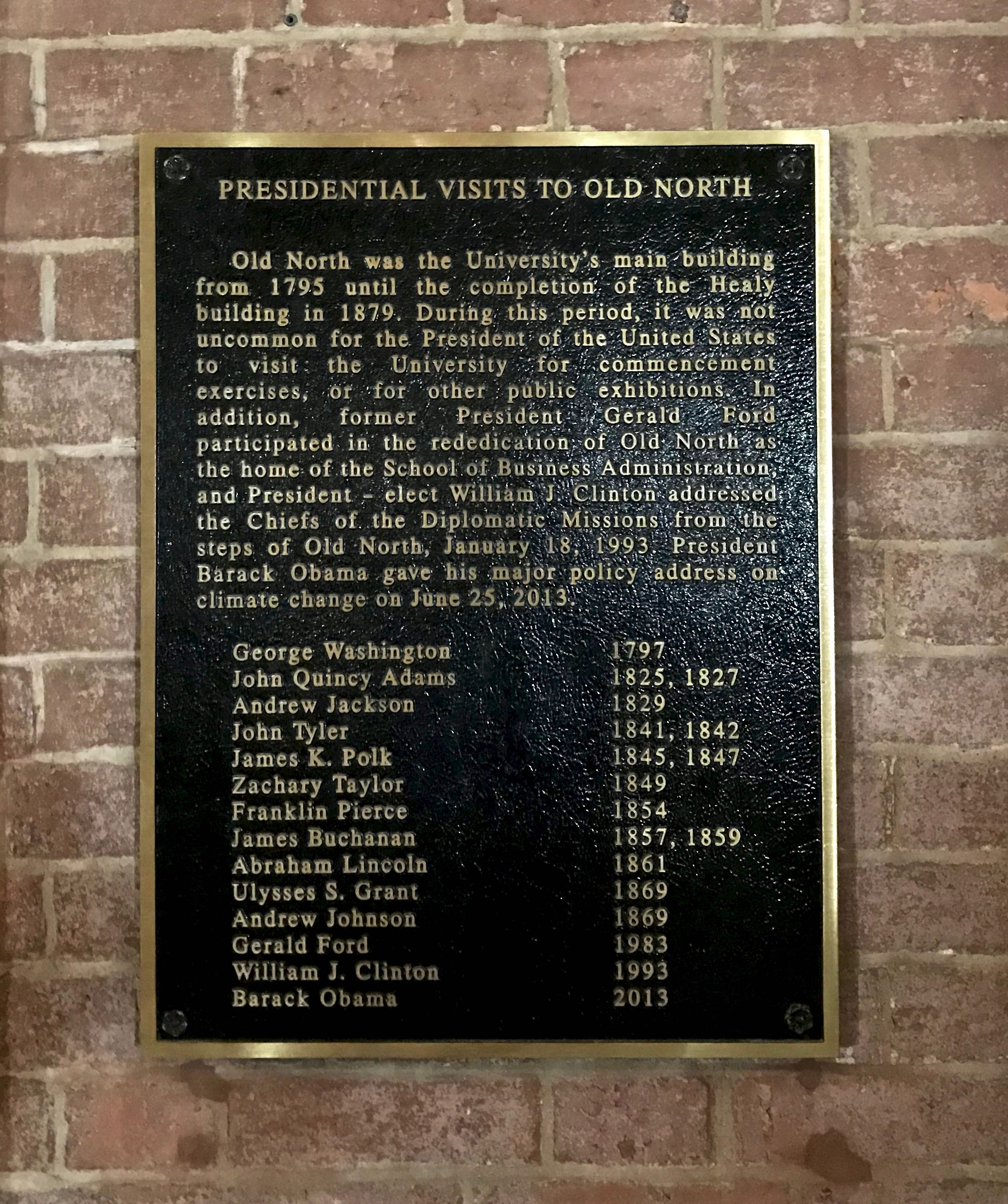 Plaque affixed to the south façade of the Old North Building of Georgetown University in Washington, D.C. identifying all the Presidents of the United States that have visited the building.